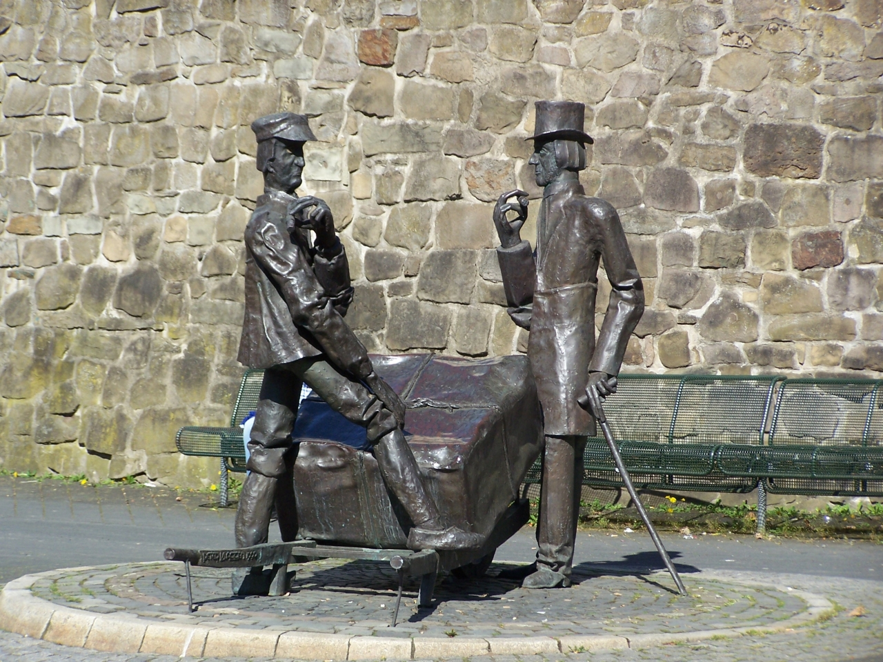 Town of Bünde, District of Herford, North Rhine-Westphalia, Germany.